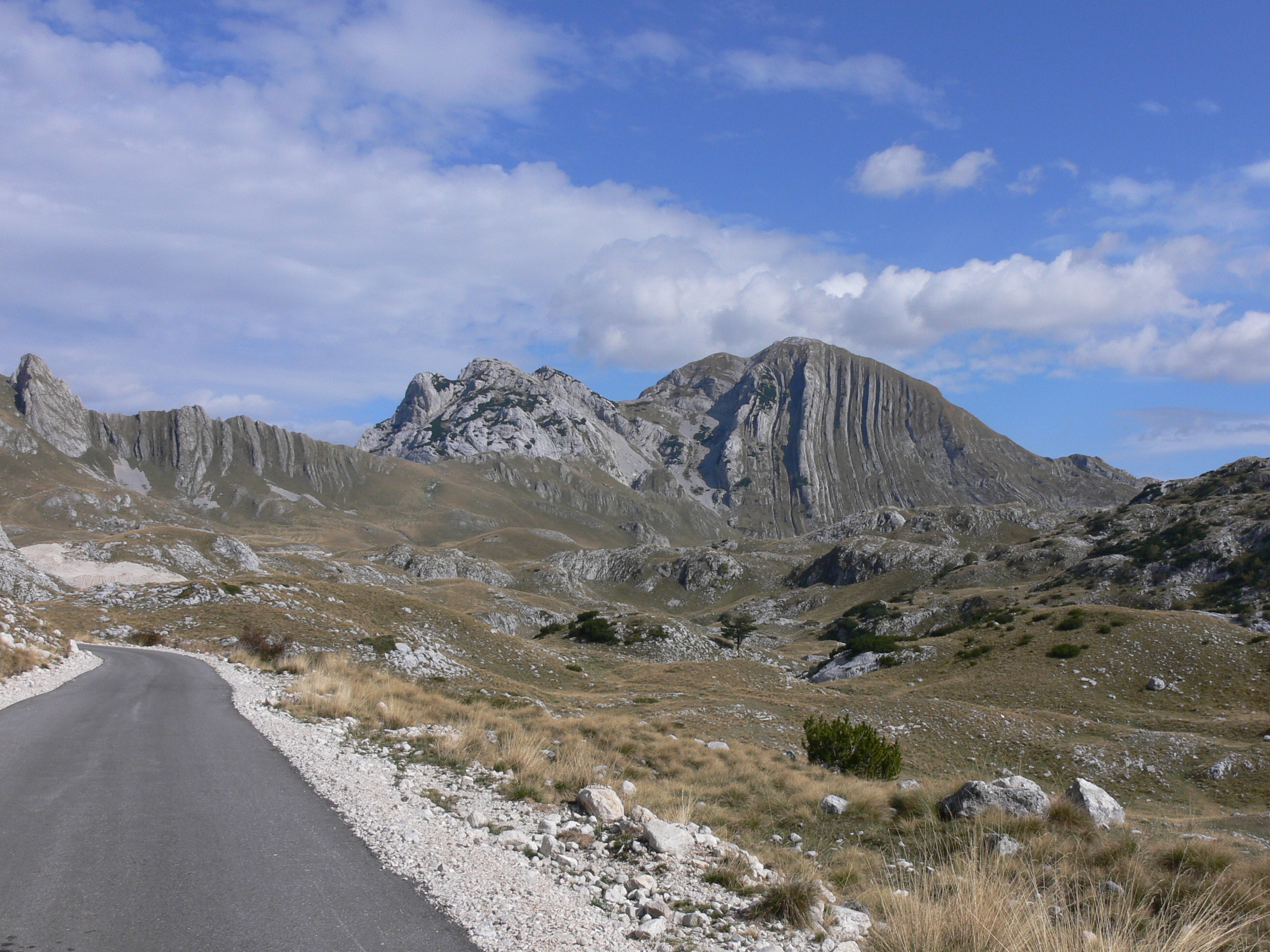 Slopes of the Prutaš (2393m) in the Durmitor Nationalpark, Montenegro. View from the road to mountain pass of Durmitor Sedlo.